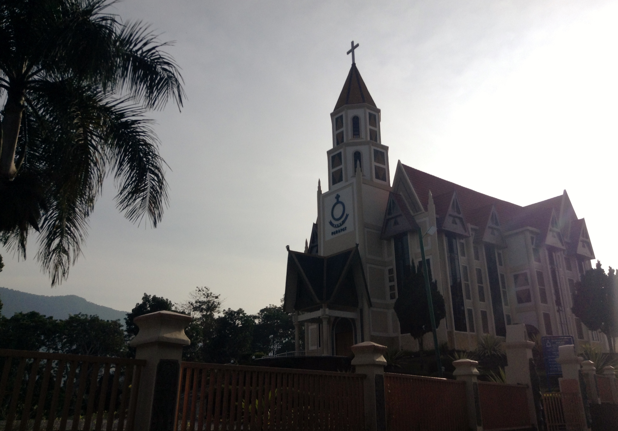 HKBP Church in Parapat, Girsang Sipangan Bolon, Simalungun.